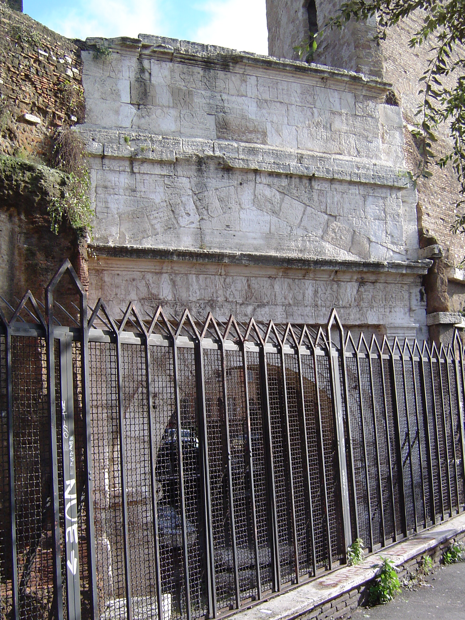 Inner Side of the Porta Tiburtina, Rome, Italy